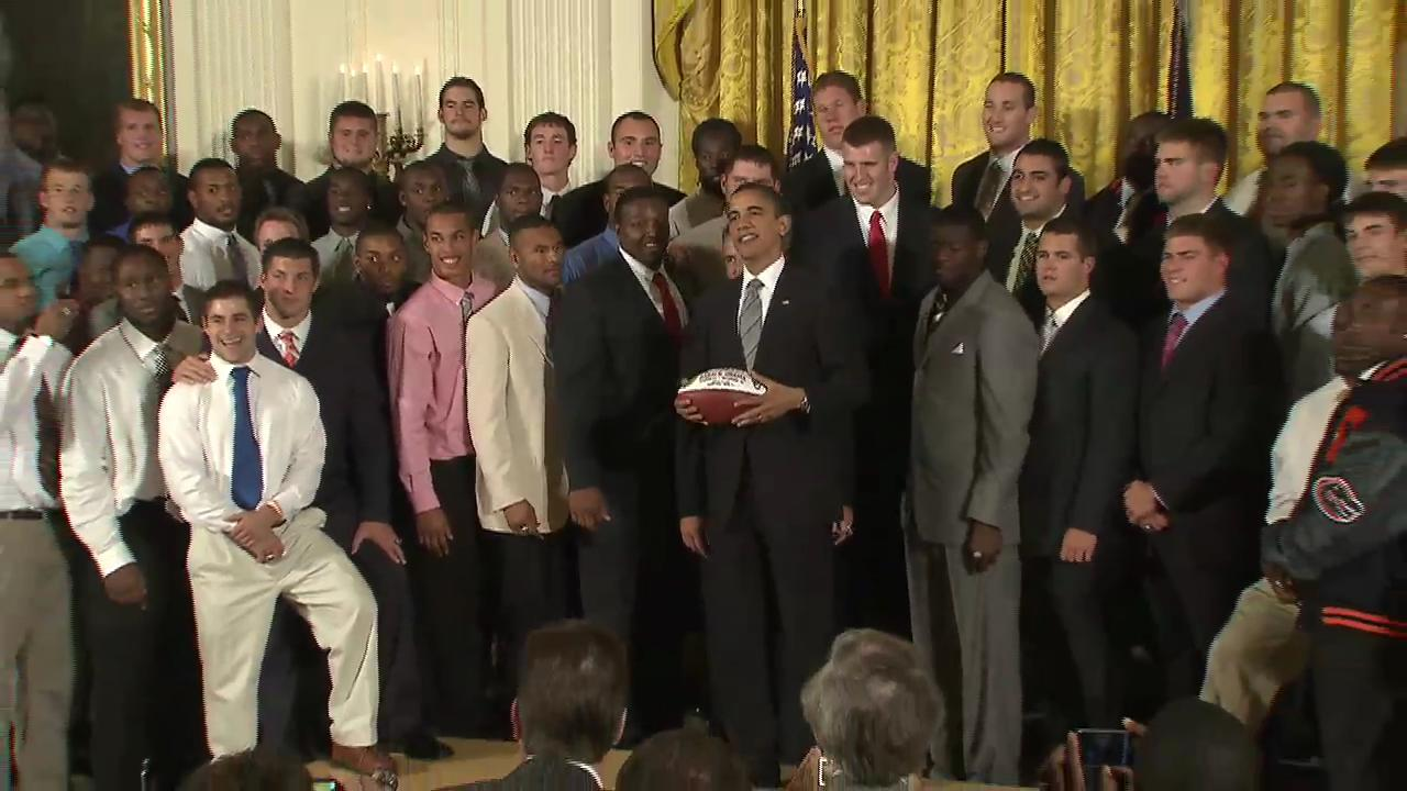 President Barack Obama poses with the University of Florida Gators national championship football team during the team's visit to the White House. Quarterback Tim Tebow is fourth from the left, first row. Screenshot of a White House video.